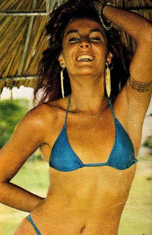 Mónica Gonzága- actriz argentina